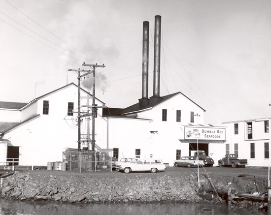 National Park Service photograph of the Samuel Elmore Cannery in Astoria, Oregon, United States, a US National Historic Landmark until its demolition/destruction by fire in 1993.